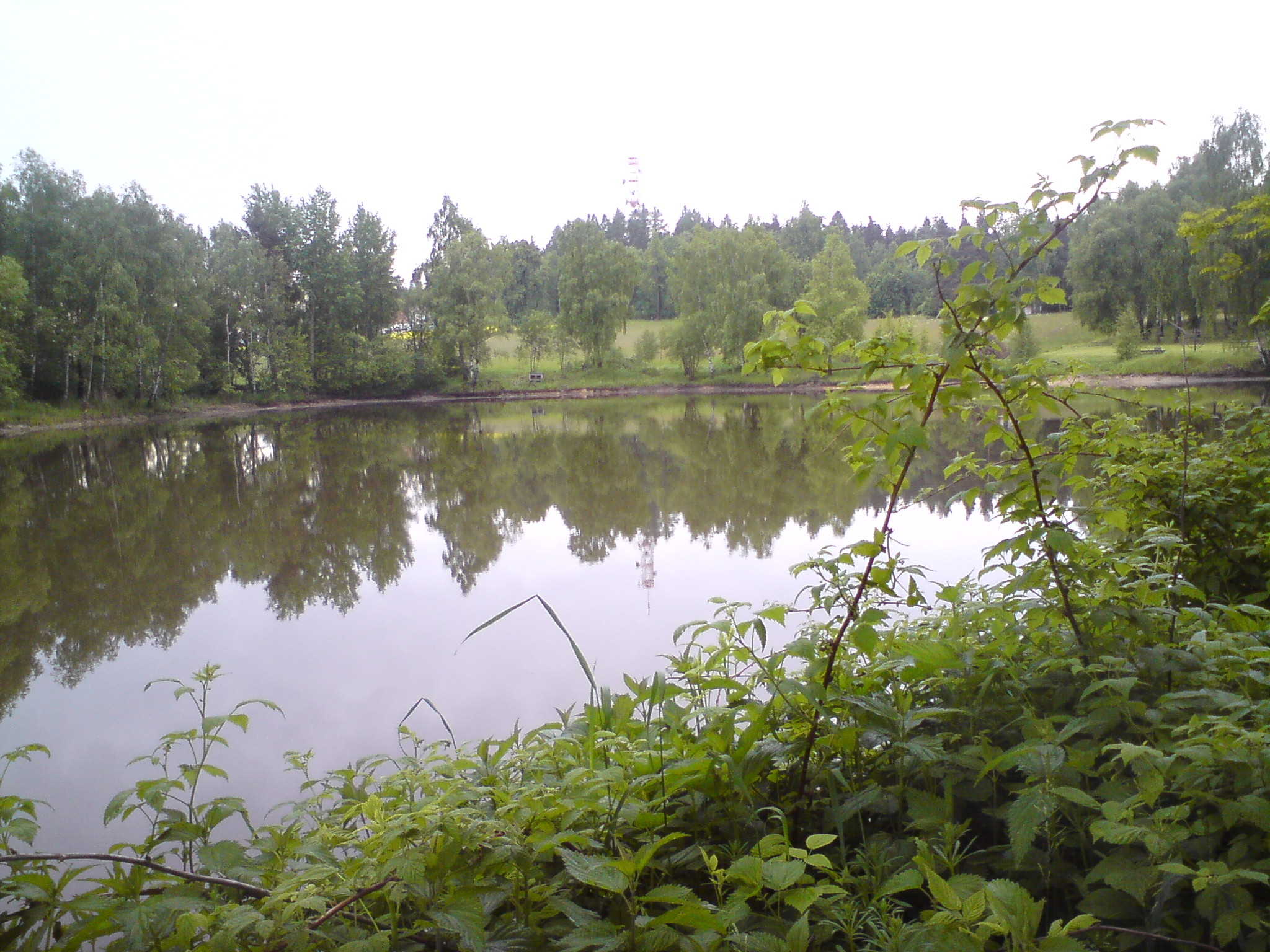 The pound in Hury in the Czech republic